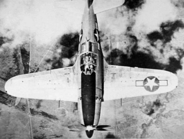 Over the Philippines, a Japanese Navy interceptor fighter aircraft Mitsubishi J2M Raiden (Thunderbolt, allied code name "Jack") in flight, of the Technical Air Intelligence Unit, South West Pacific Area (SWPA) located at Clark Field, Luzon (Philippines) from the end of January 1945. The aircraft was recovered from a makeshift airstrip in Manila when American forces recaptured the city. The Mitsubishi J2M's development to full combat status was delayed by technical problems and production indecision, resulting in employment being mainly in the defence of Japan from USAAF bombing.